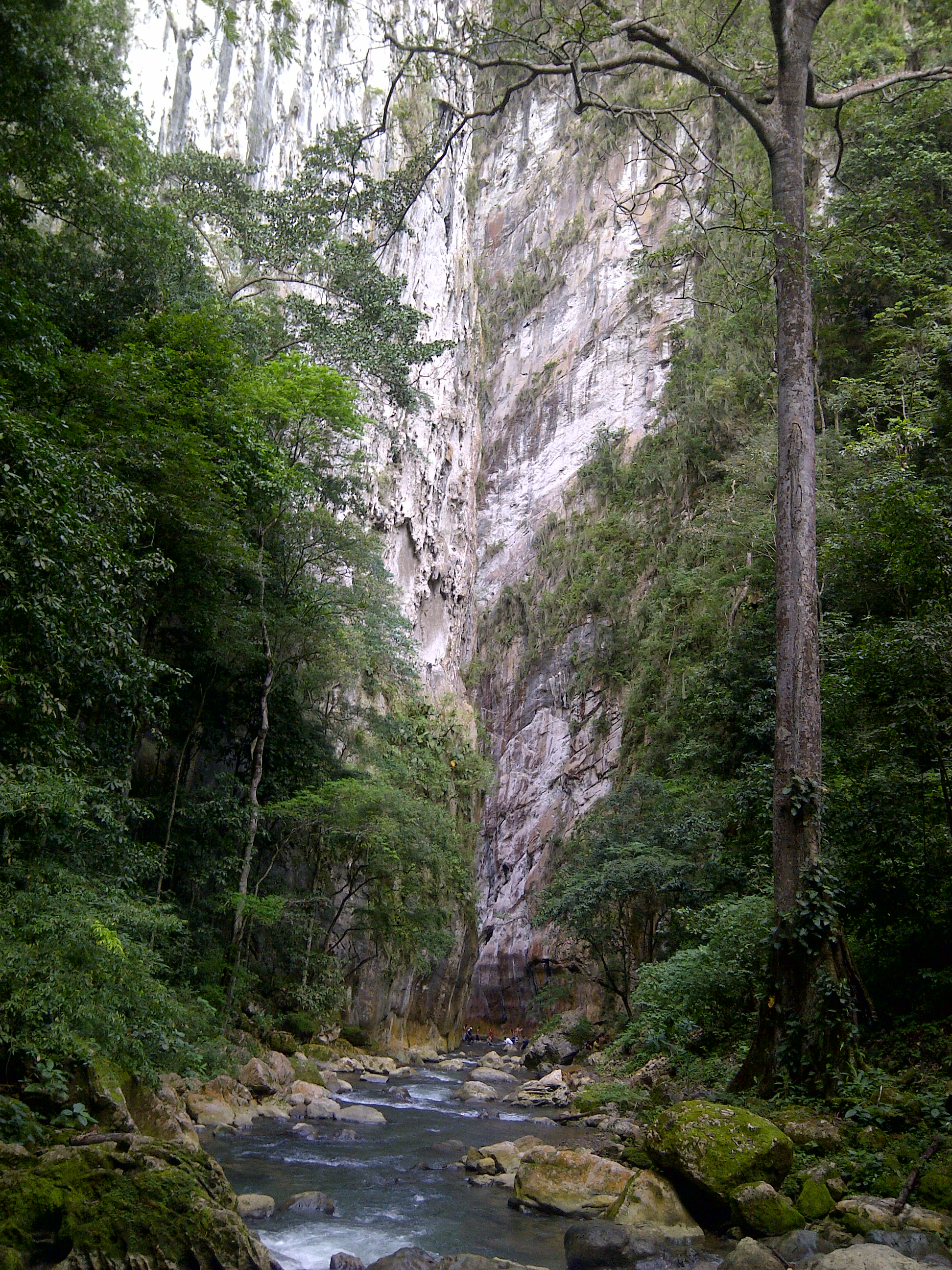 Las Puertas de Miraflores son paredes de roca caliza de 150m de alto, ubicadas en el sector Miraflores, municipio Acosta del Estado Monagas. Posee rutas para Escalada en Roca que están entre las más altas del país, con dificultades entre 5.7 hasta 5.13c y son consideradas entre las mejores paredes de escalada de América del Sur porque son extra-aplomadas en el lenguaje de los escaladores; pero Las Puertas de Miraflores no son sólo para escaladores; son un paseo excelente y altamente recomendado para practicar senderismo, observar la naturaleza y darse un buen baño de río, ya que se accede a ellas por una caminería en medio de un exuberante bosque con varios pasos de río.